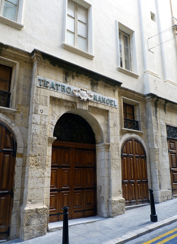 Facade of Manoel Theatre in Valletta